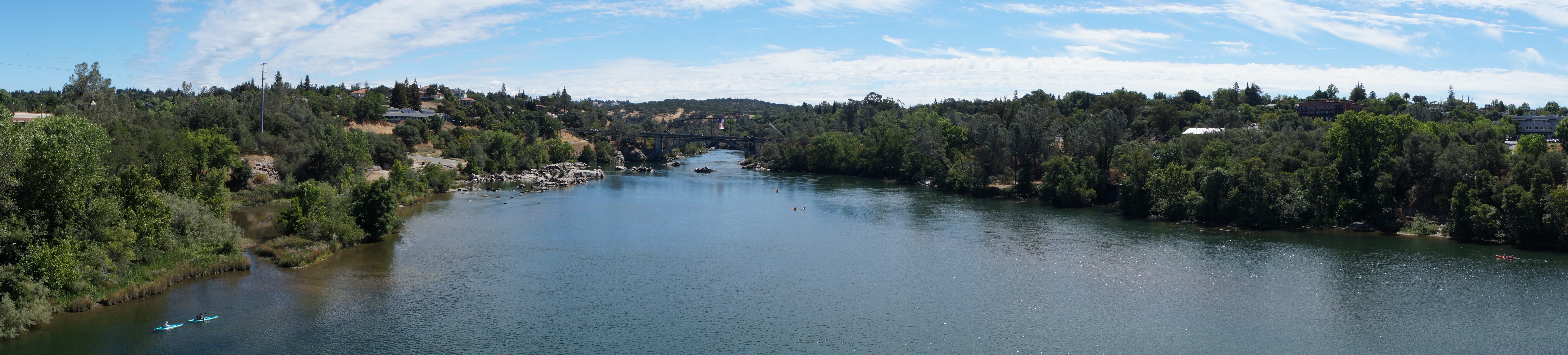 View of Folsom bridges from Lake Natoma Crossing Bridge.